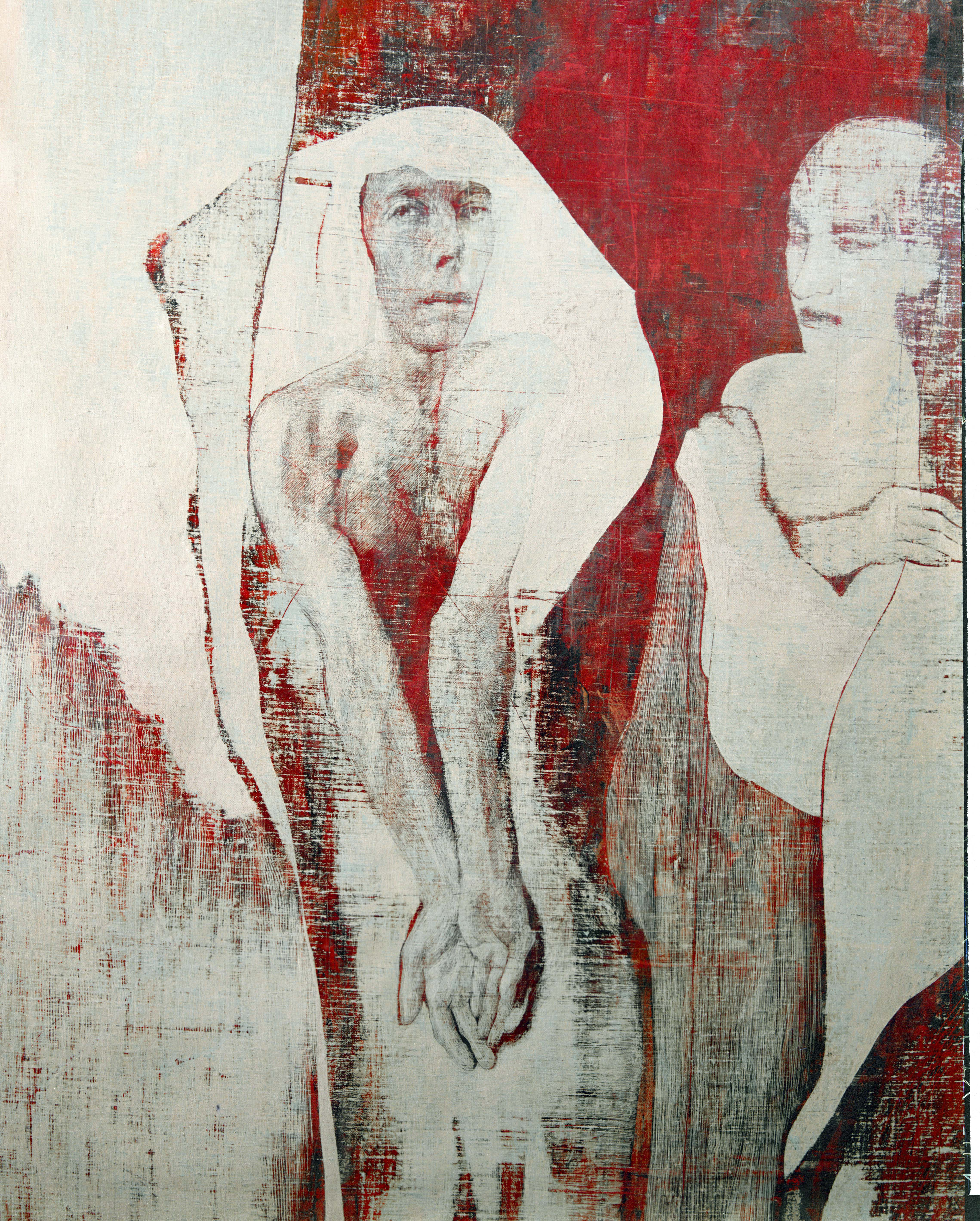 Joseph Accused-detail